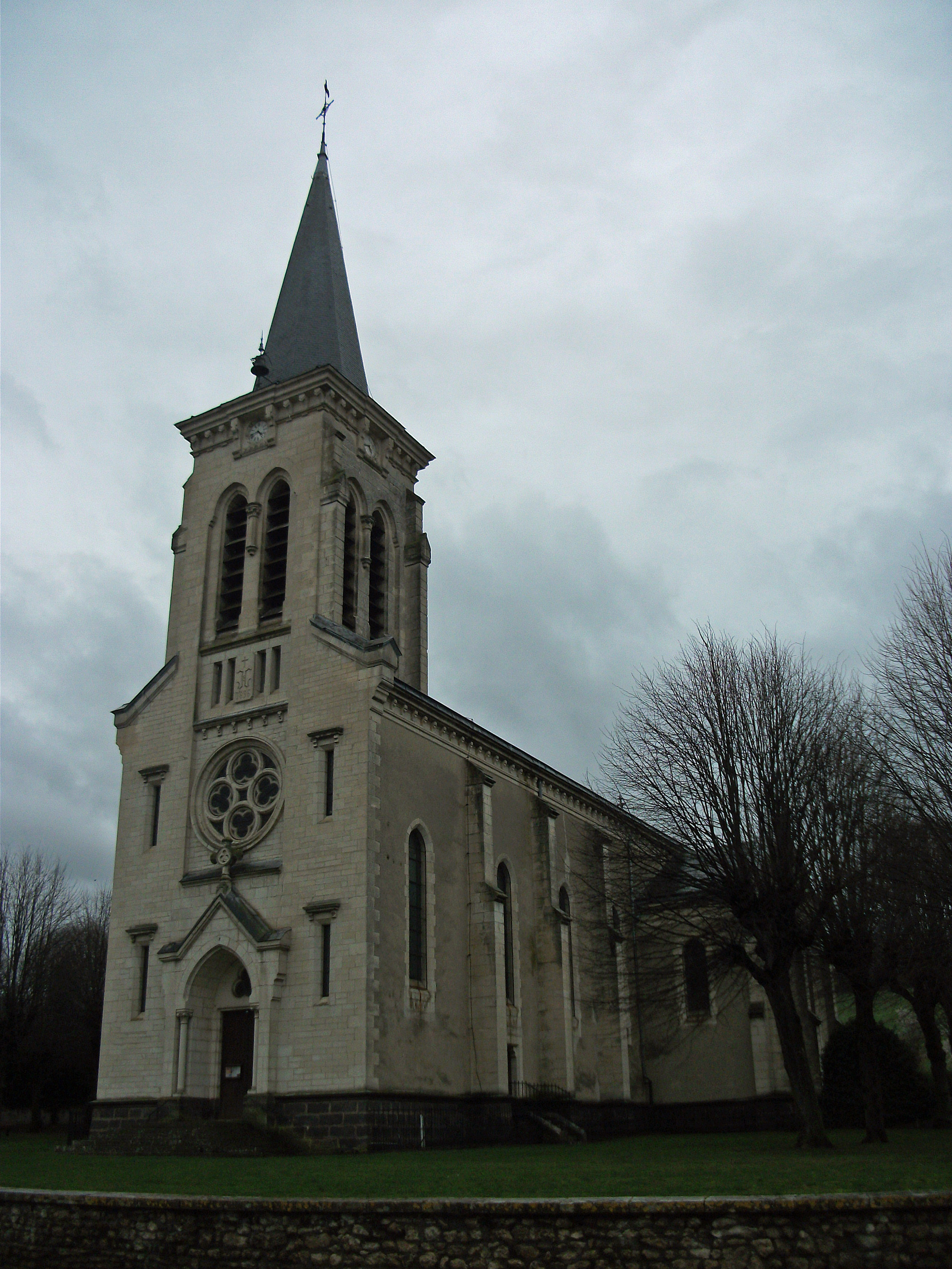 Church of Vensat (Puy-de-Dôme) [10093]